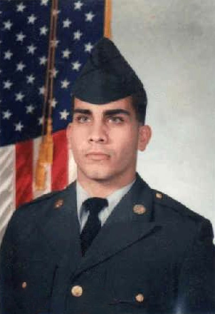 Chris Pardal's Army Photo.